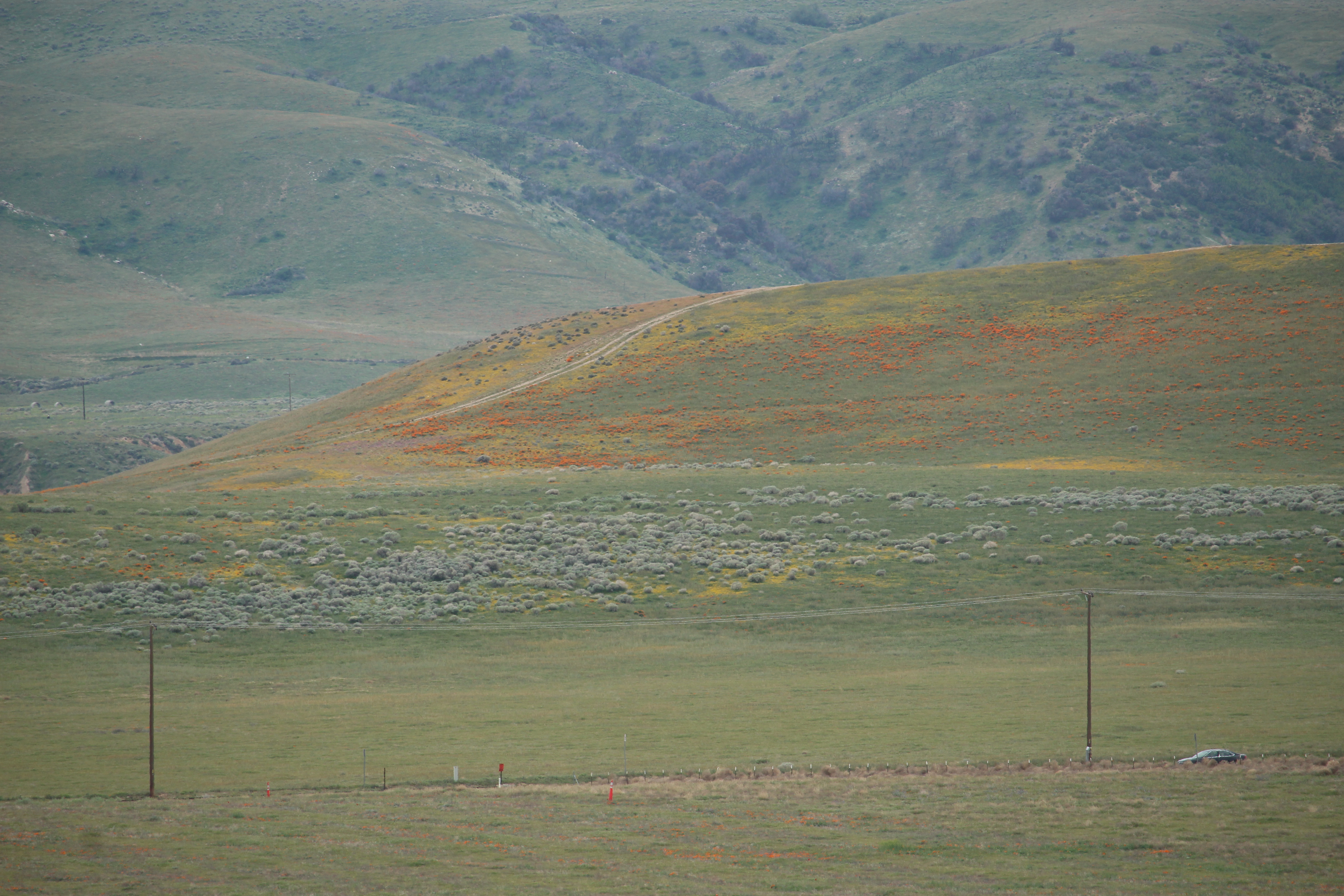 Portal Ridge near Elizabeth Tunnel (Los Angeles Aqueduct) with Myrick Canyon (behind hill with California poppies and common goldfield) Viewpoint location: Antelope Valley California Poppy State Reserve, Lancaster, California Viewpoint elevation: 862 meter (2828 ft) View direction: 202° Location source: Garmin GPSmap 60CSx Location Datum: WGS84